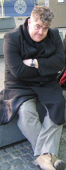 Edited Image of Phill Jupitus taken from user subberculture tagged as CC Sharealike. Original image here has been edited to remove Neil Innes and so give focus to subject.